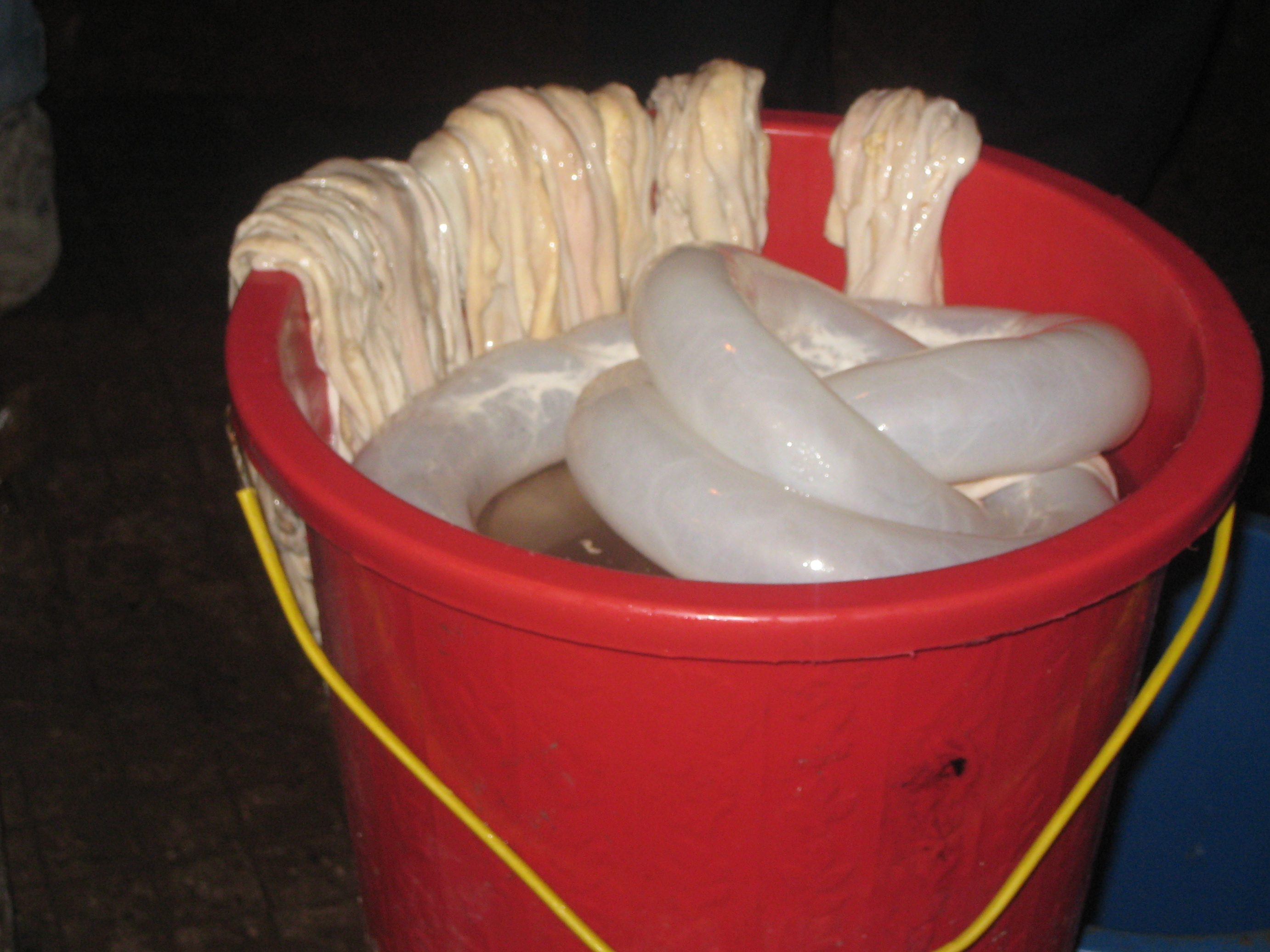 Natural Casing for sale at the meat market in Aleppo, Syria